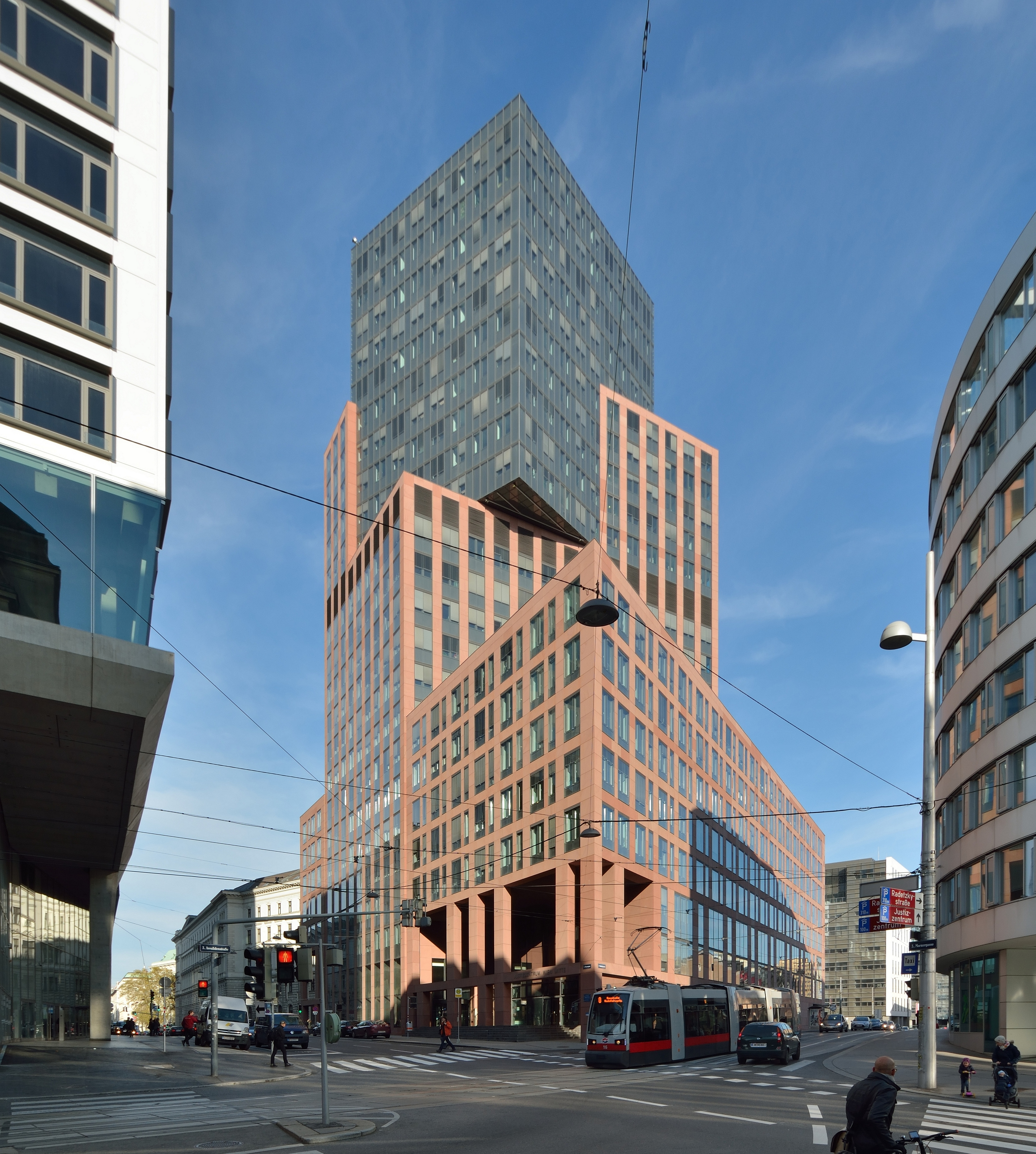 City Tower Vienna, Centre of Justice, 3rd district of Vienna